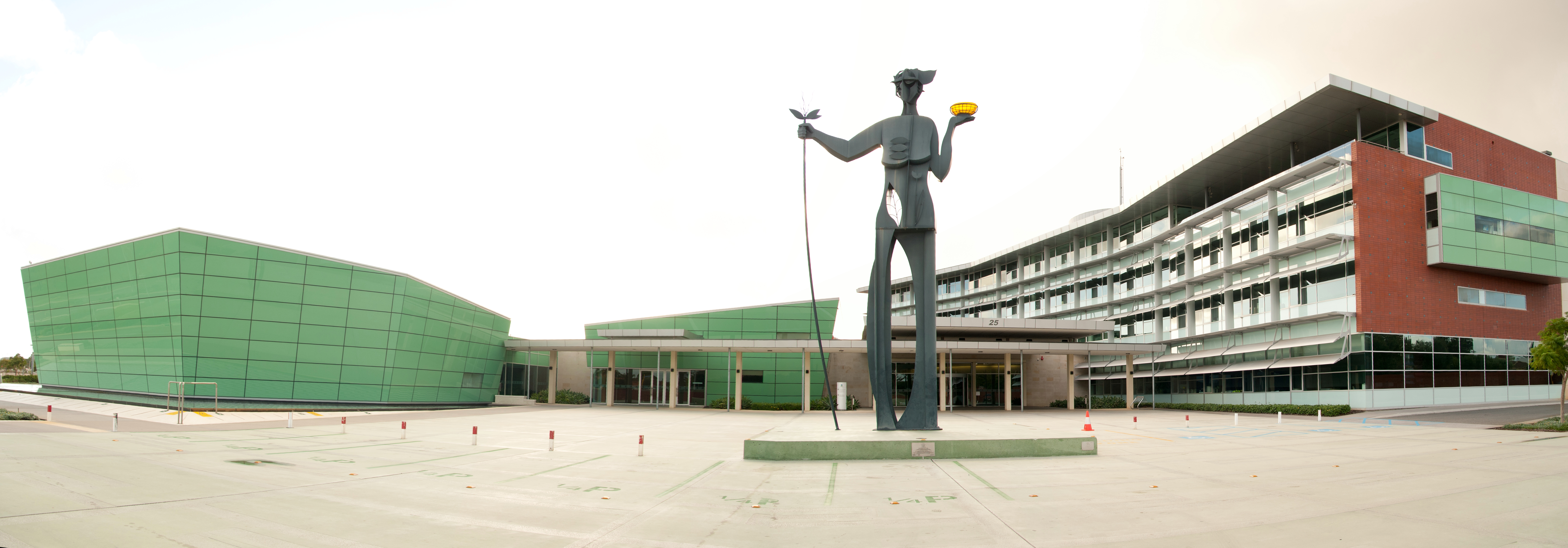 offices of the city of Stirling, Cederic st Stirling